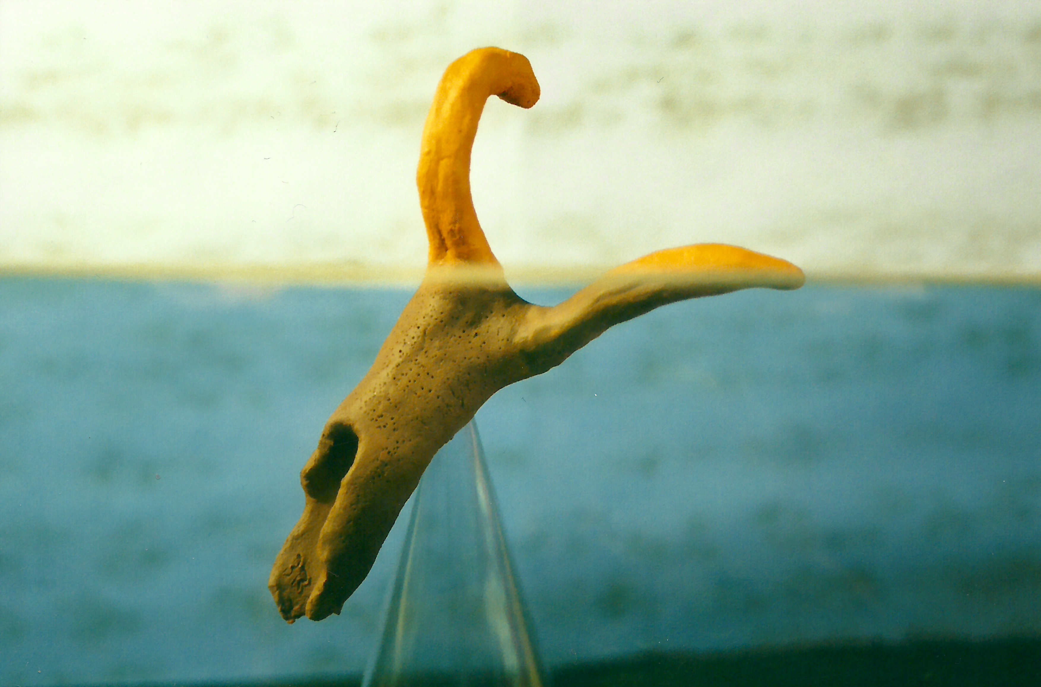 Side view of how a floating tree stump could look like the famous Mansi Champ monster photo. Model and photo by Benjamin Radford.